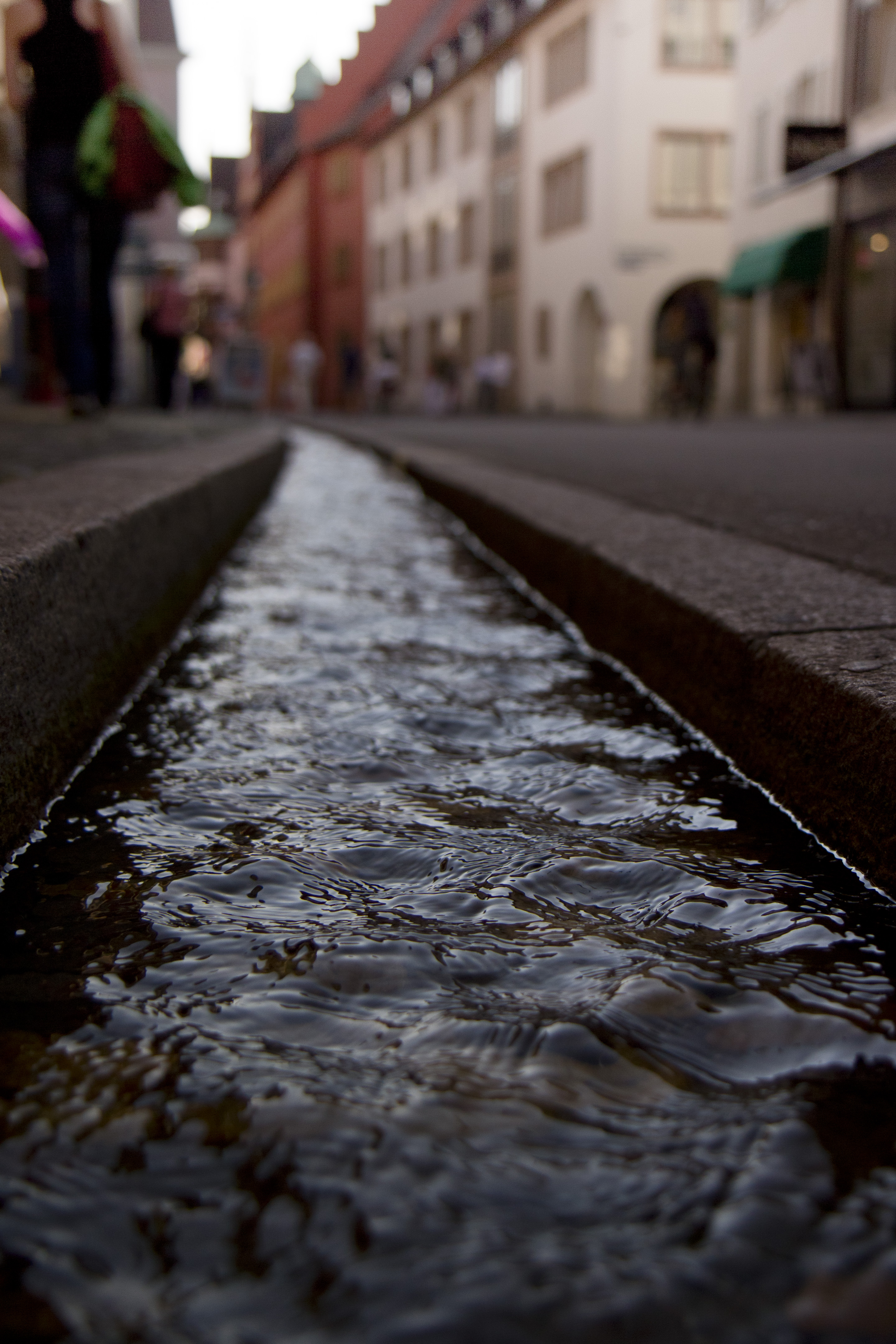 Freiburg im Breisgau has an unusual system of gutters (called Bächle) that run throughout its centre. These Bächle, once used to provide water to fight fires and feed livestock, are constantly flowing with water diverted from the Dreisam. They were never used for sewage, and such use could lead to harsh penalties, even in the Middle Ages. During the summer, the running water provides natural cooling of the air, and offers a pleasant gurgling sound. It is said that if you fall or step accidentally into a Bächle, you will marry a Freiburger, or 'Bobbele'. "Venice for your feet" —Klaus Eberhartinger 2010 at a concert "On the longs walks through the traffic-free city center one crosses a channel carelessly - and suddenly a little boat made out of paper is floating by. Children are playing in the water in the middle of the business center of a city. [...] Fresh water from the Black Forest is briskly flowing next to the streets, taking with it the dust and cleaning the air. At least this is the argument when people from the north complain about the absurd and dangerous mantraps. Of course one wants to respond with something that gives an illusion of practical use. But I think, the Bächle are less for cleanliness than for the soul." —Ruth Merten in Wenn Freiburgs Blüten blüh'n, 1986